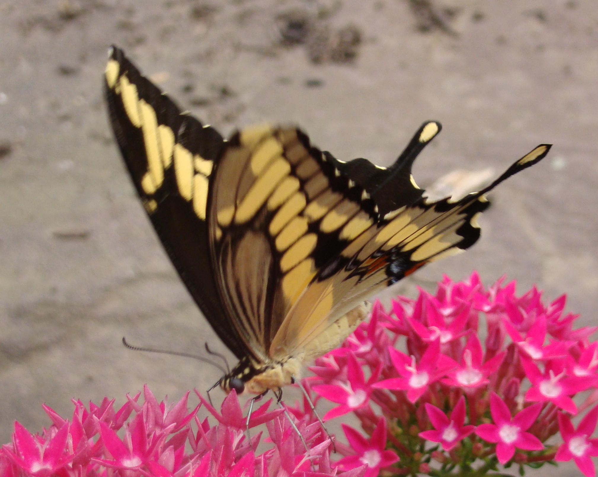 Picture of Giant Swallowtail (Papilio cresphontes) taken at the Hershey Gardens Butterfly house.